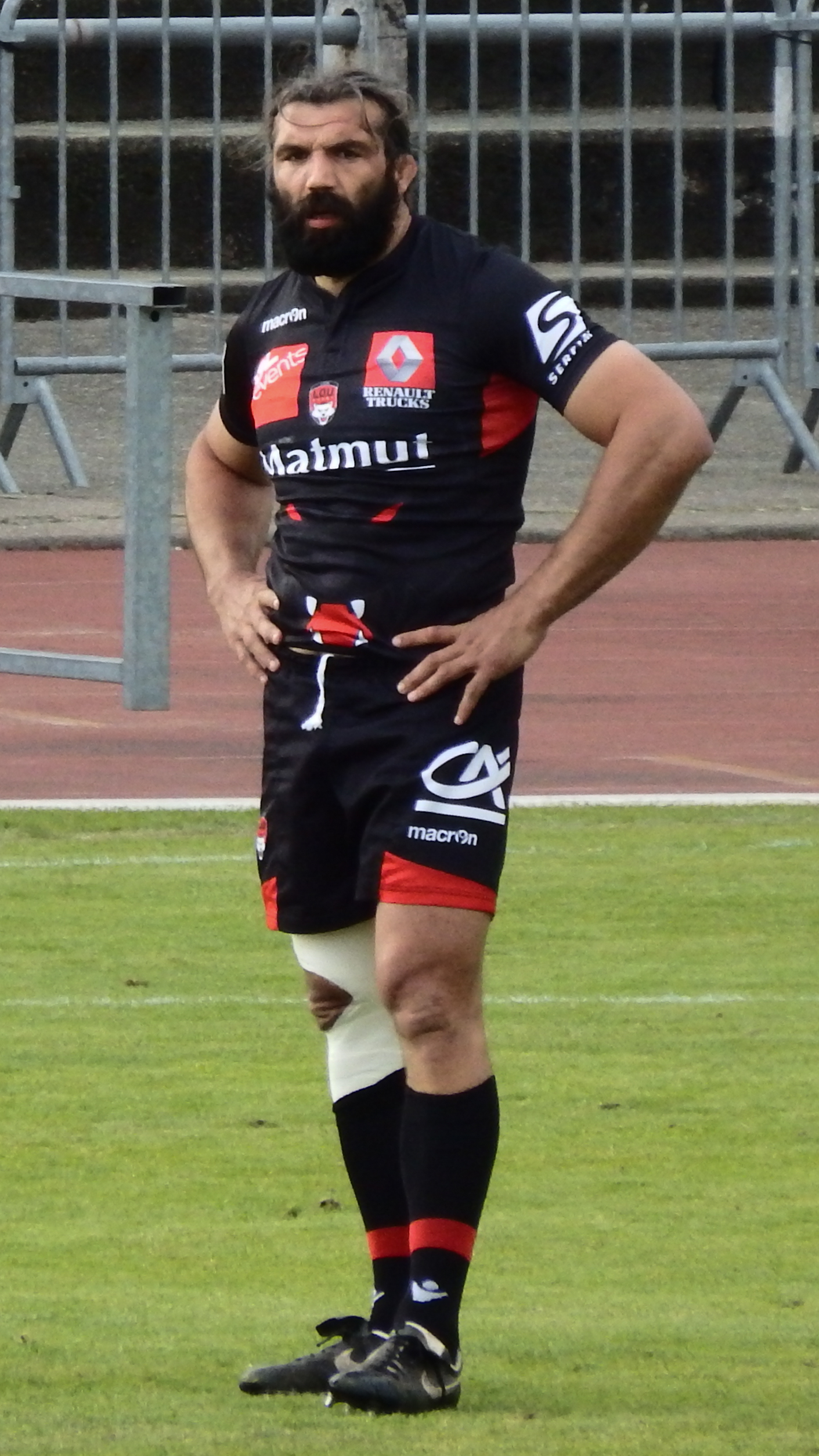 Pro D2 2013-2014 — 12 April 2014, Stade Maurice Boyau. Match between: US Dax — Lyon OU